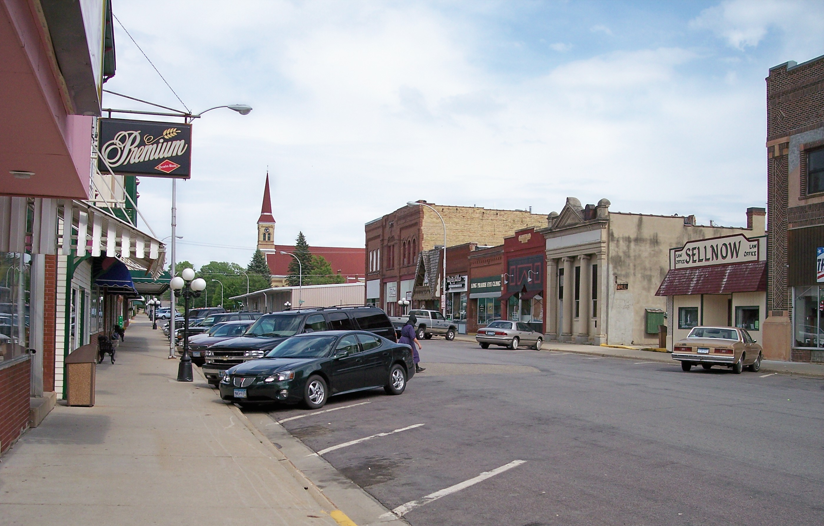 Central Avenue in Long Prairie, Minnesota